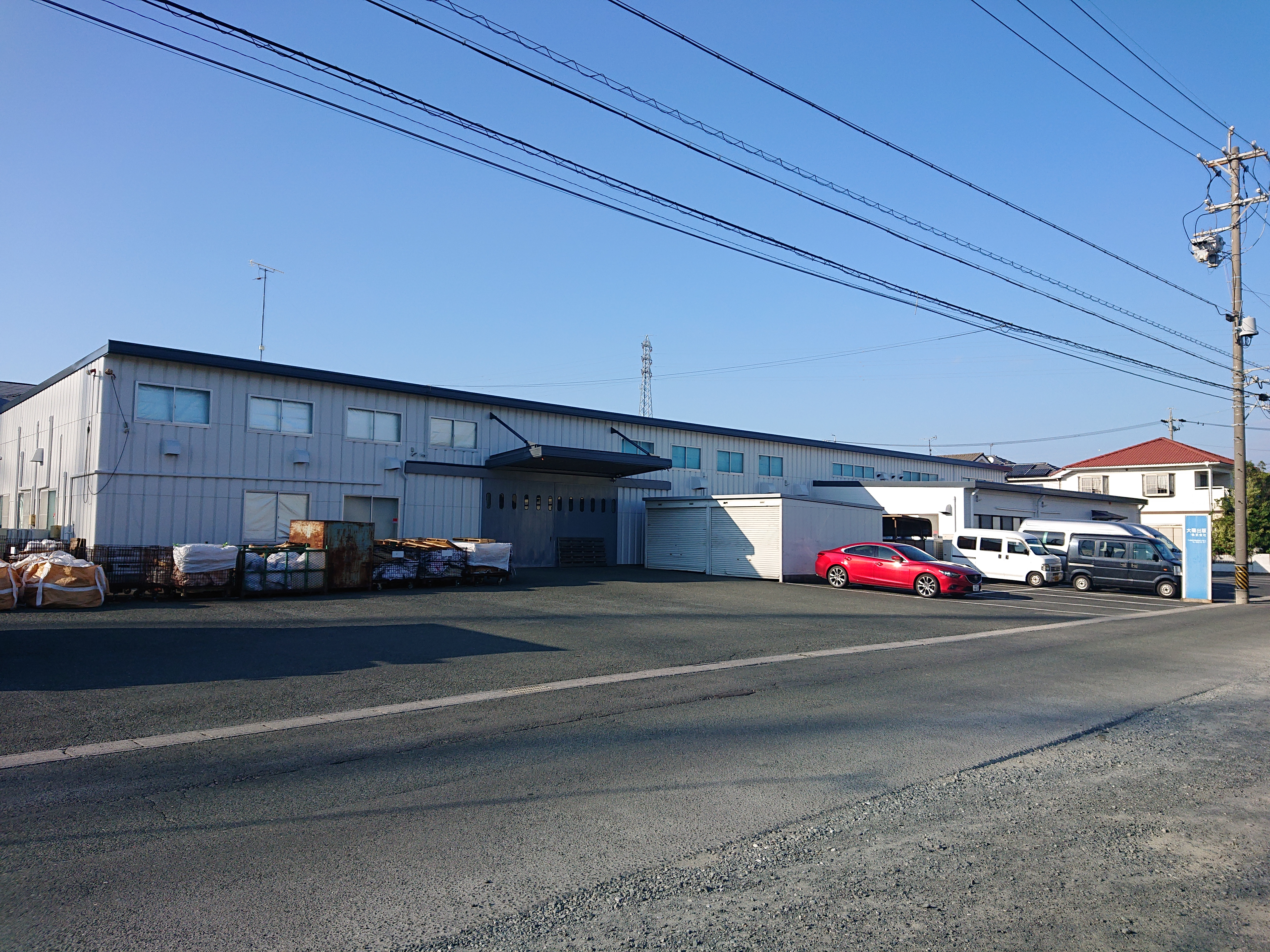 Taiyou Shuppan headquarters, at 200 Ronowari, Jin'no-shinden-chō, Toyohashi, Aichi, Japan